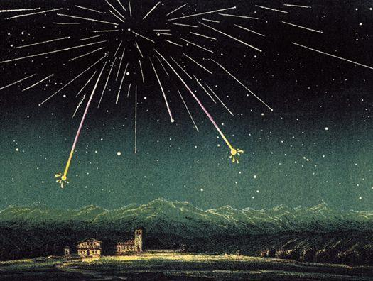 Shower of Andromedids, Nov 27th 1872, seen over France